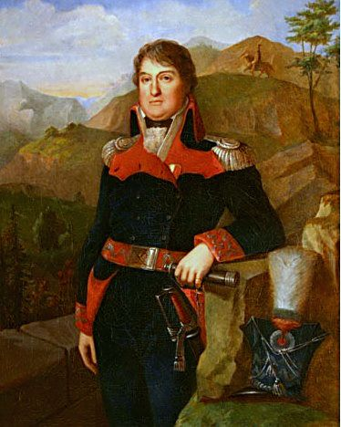 General Jan Henryk Dąbrowski in Italy